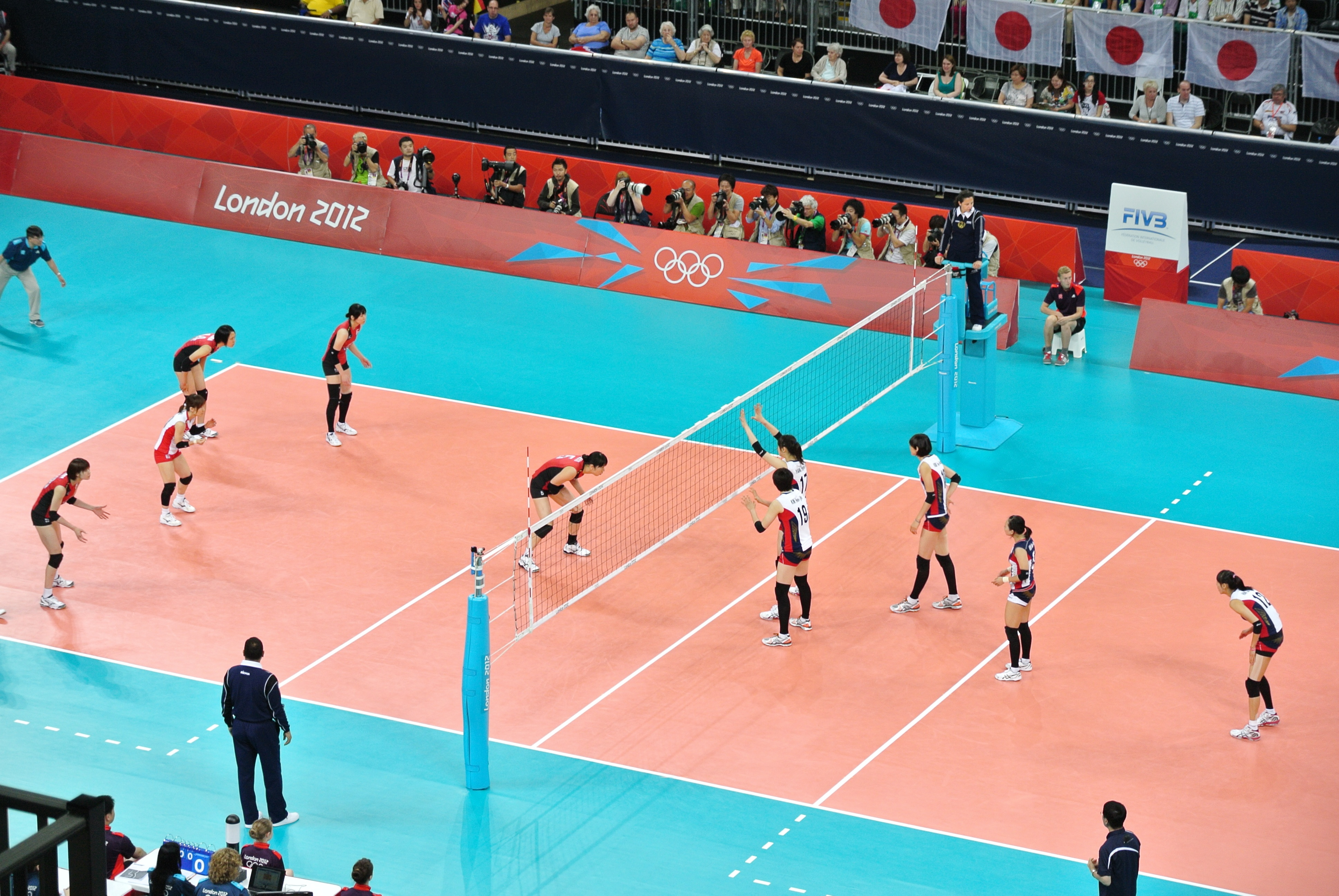 Bronze medal in the womens tournament begins